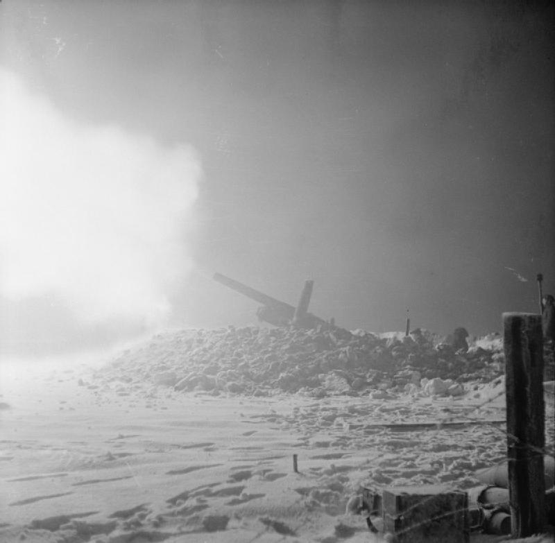 The Campaign in North West Europe 1944-45 5.5-inch howitzers of 236 Battery, 59th Medium Regiment, Royal Artillery, firing at dawn, before 12 Corps' attack in the Sittard area of Holland, 16 January 1945.